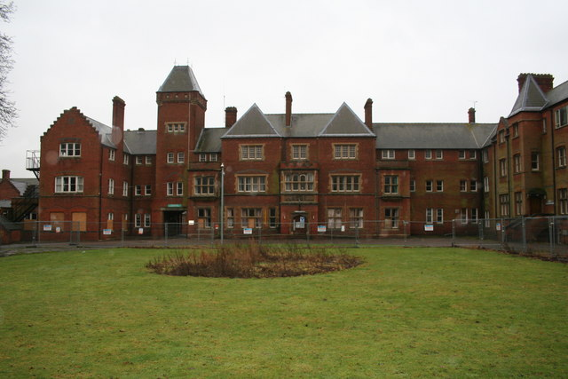 Fair Mile Hospital front, taken from the roundabout.